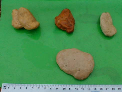 different "mizretes", a structure called "hippomane" in French, present in the allantoidal waters of cows. The three ones above had been conserved in formaline. Walon: mizretes di vatche; les troes ådzeu ont stî wårdêyes dins do formol (portrait saetchî pa L. Mahin).